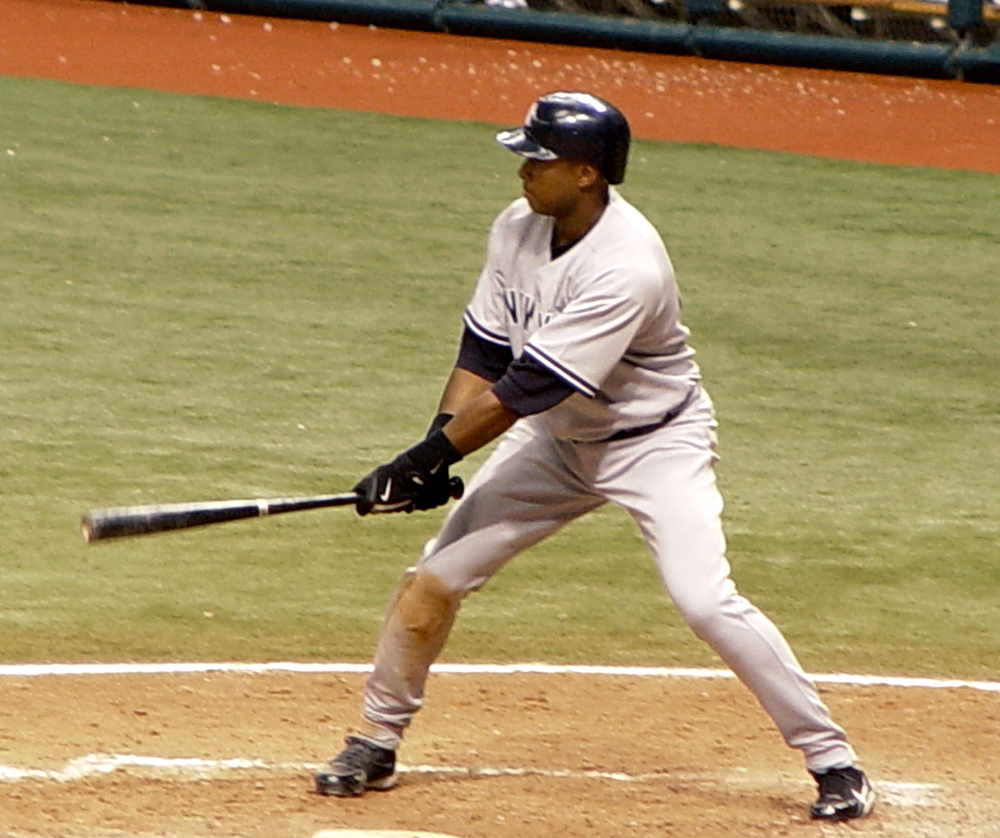 Bernie Williams at the plate, His Birthday, September 13, 2005. Notes-Batting from the left side of the plate and away 17:14, 18 September 2005 . . Googie man . . 1000×838 (427,373 bytes)